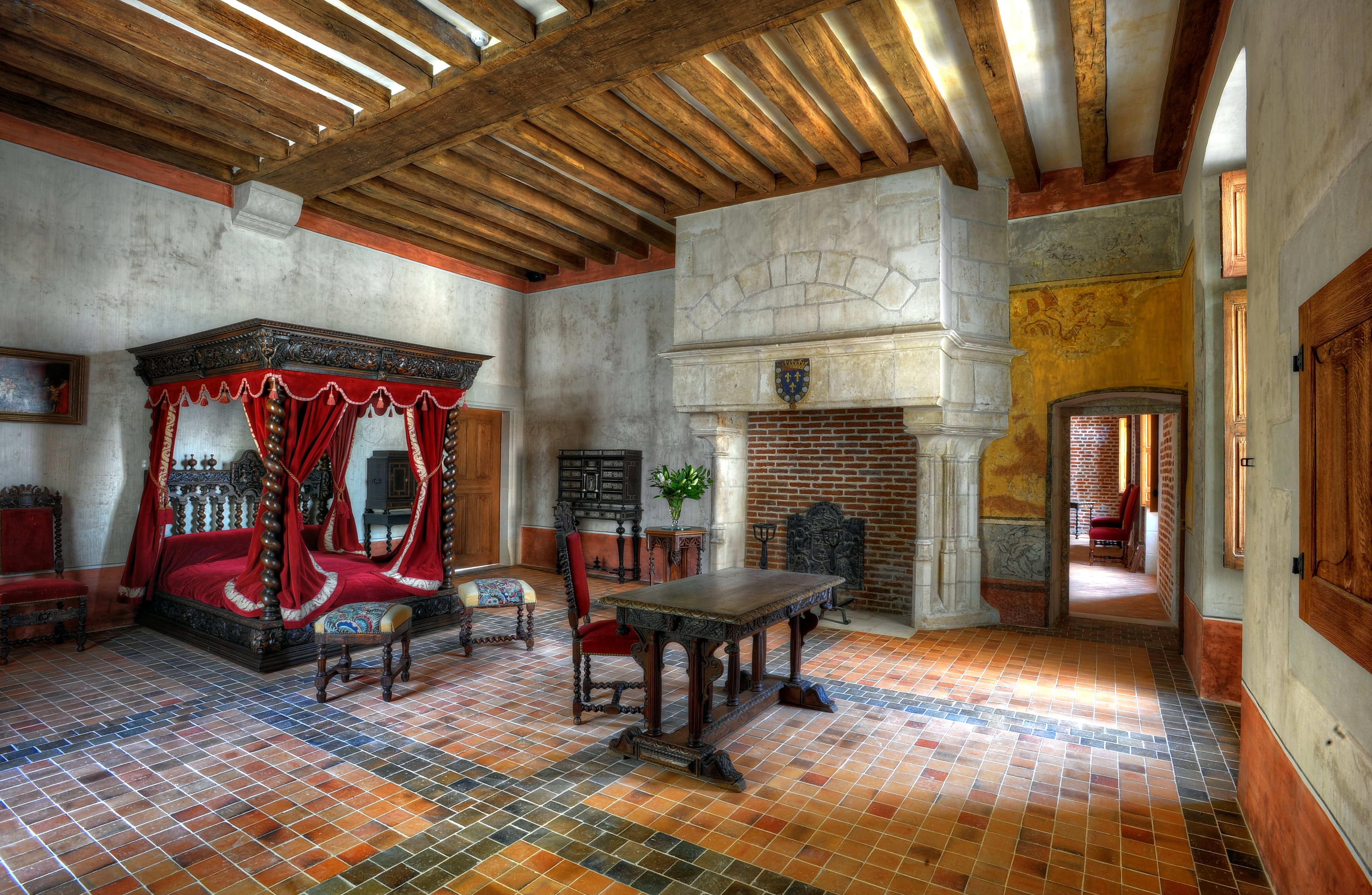 Restored room of Leonardo da Vinci: Renaissance bed with canopies carved chimeras, cherubs and marine animals; Italian secret cabinets of the sixteenth century; tufa stone fireplace decorated with the arms of France and the necklace of the order of Saint Michael; coated wall with a patina in water mixed with natural pigment (Sienna, burnt sienna, natural shade earth, yellow ocher)